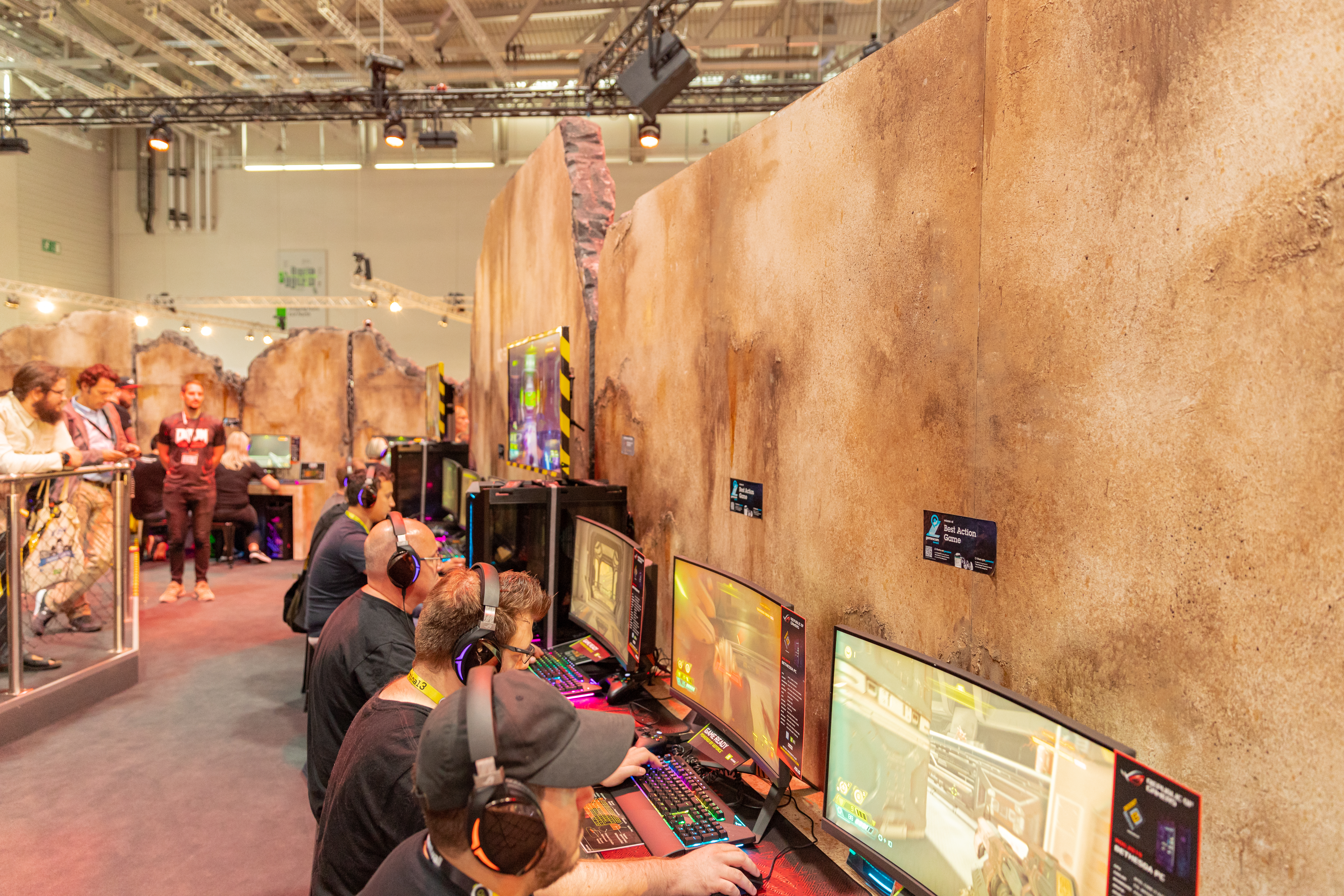 Best action game Doom Eternal Gamescom 2019